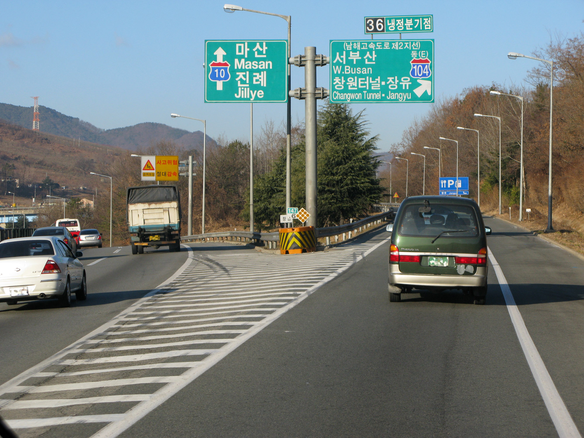 Namhae, Namhae Expressway 2nd Branch Line Naengjeong JCT